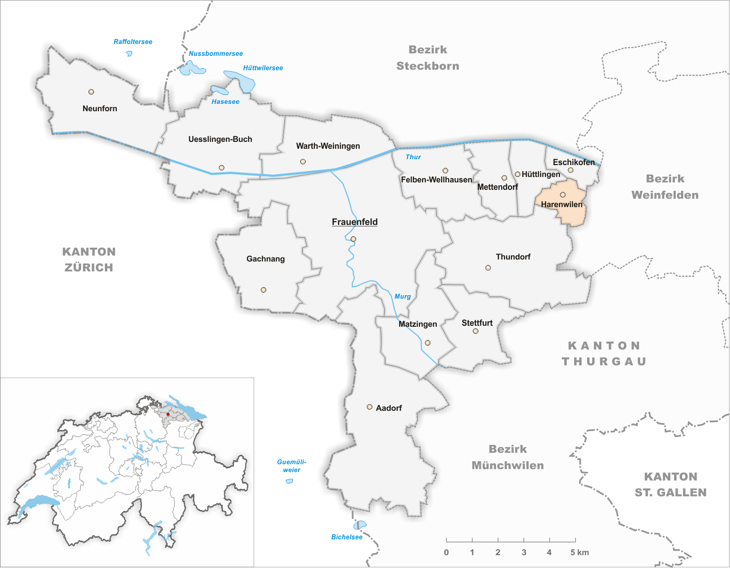 Municipality Harenwilen